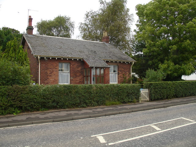 Station House, Balmore Often overlooked, this house is unlike any others in the area as its red-brick construction and roof style confirm this was the route of the Kelvin Valley Railway (which crossed the road at this point).